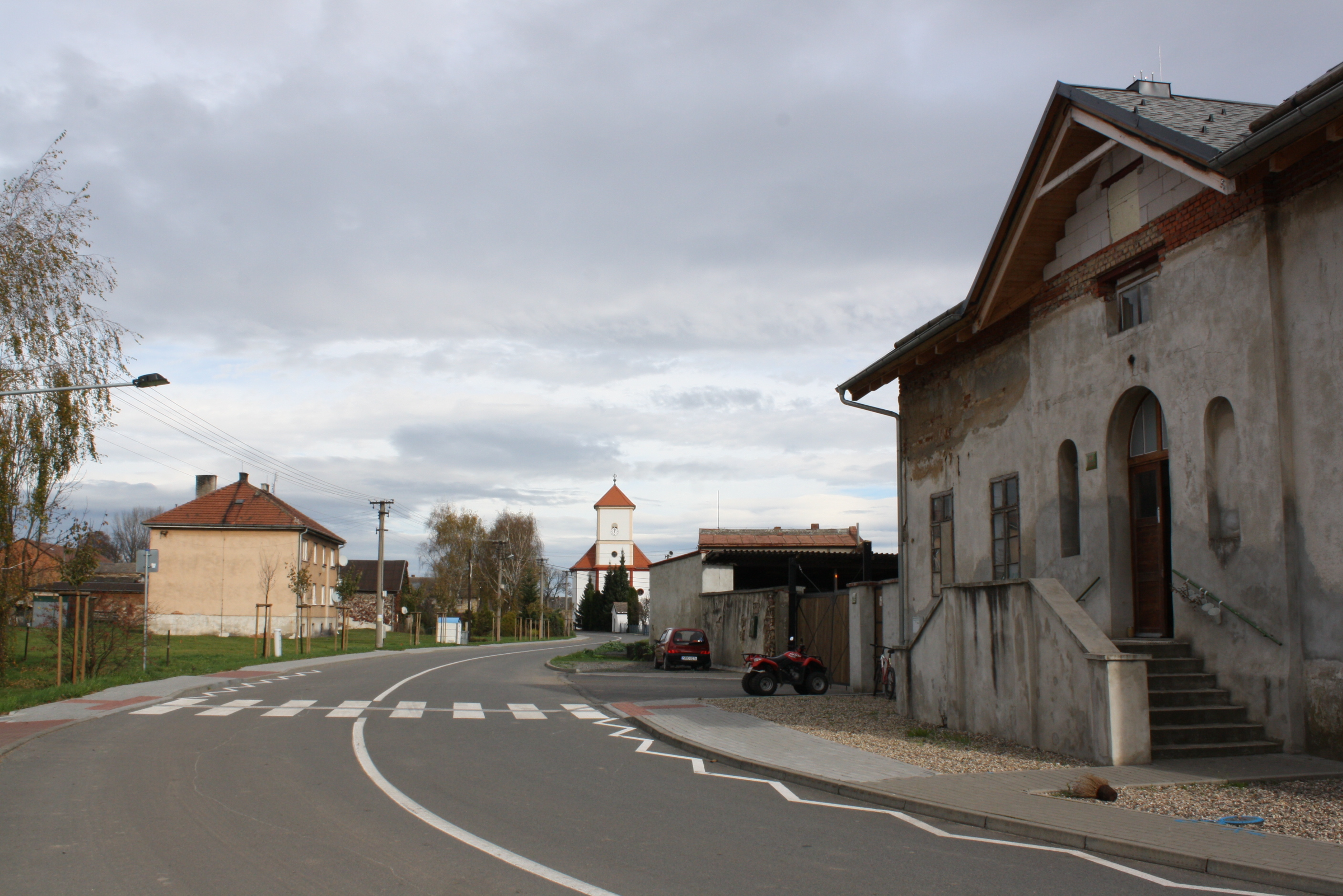 Třebom (Opava disctrict, Czech Republic)